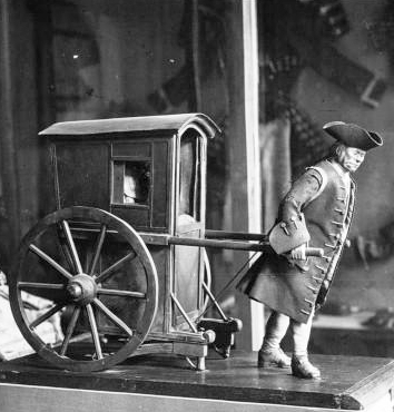 A model vinaigrette, a litter-like vehicle invented in the 17th century and used until the late 19th century in northern France, at the Château de Compiègne.